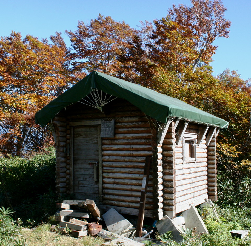 Mountain Huts Ogasayama in Ryōhaku Mountains, Japan.